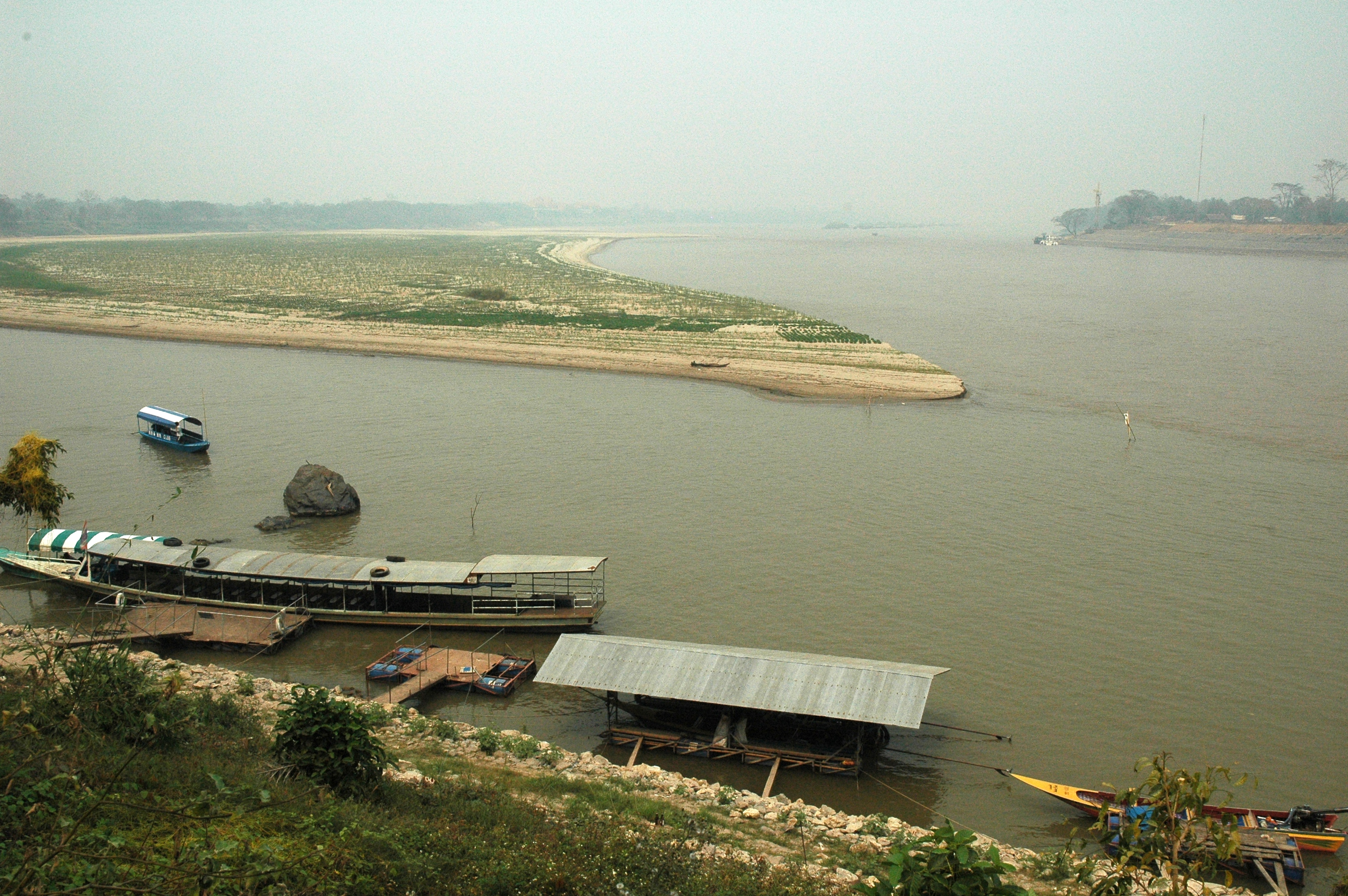 The confluence of the Mekong and the Ruak rivers, Golden Triangle.